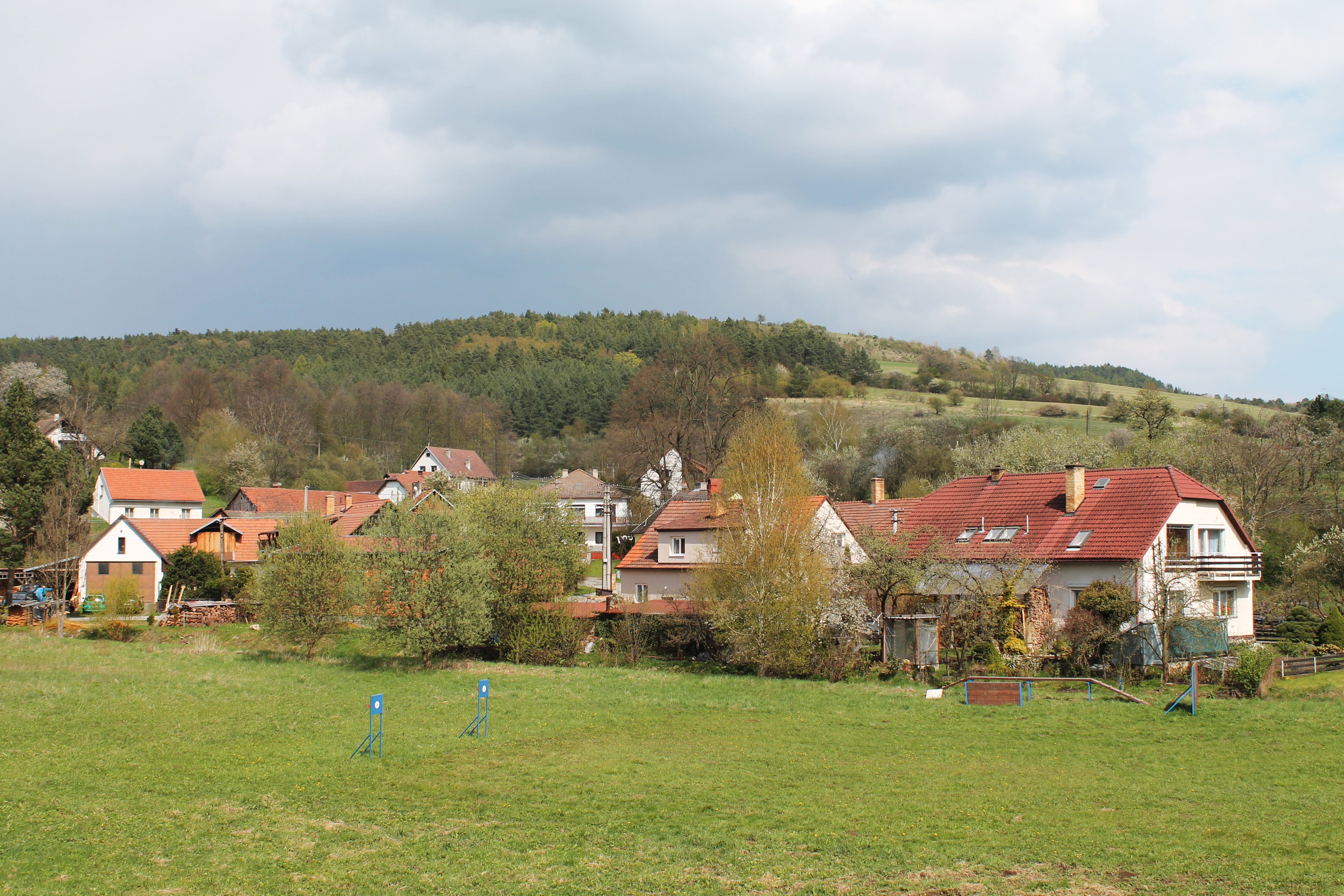 Prostřední Poříčí, Blansko District, Czech Republic This photograph was taken during a group photography field trip by Brno Wikipedians: 2017-04-29.